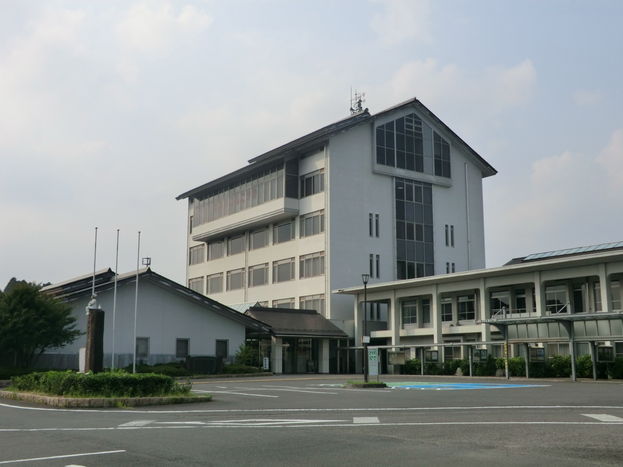 Koka city Tsuchiyama Chiiki Shimin Center, Tsuchiyama, Koka, Shiga, Japan